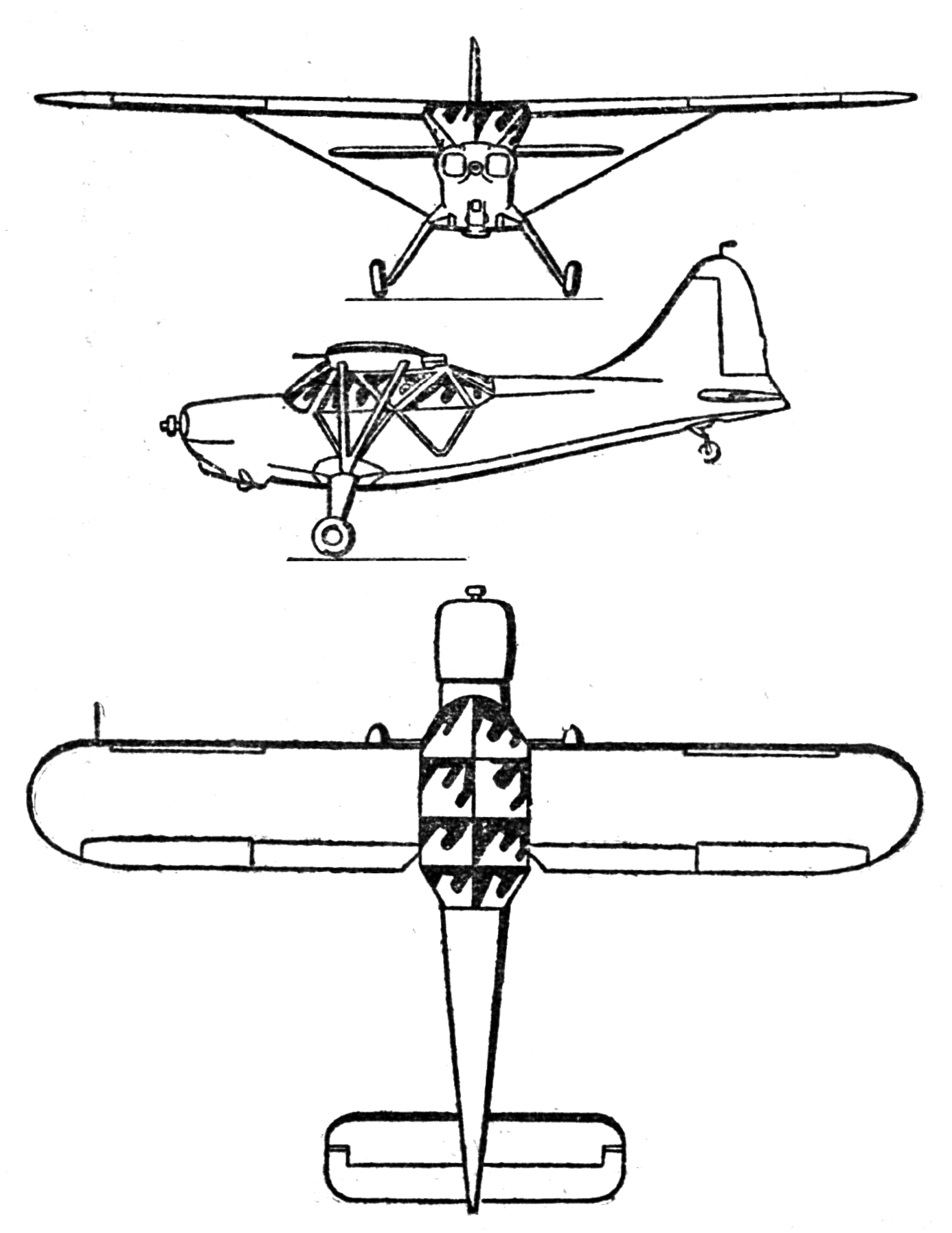 Stinson Sentinal 3-view drawing from Les Ailes January 4,1947